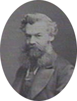 Charles John Muddle, owner of Fairholm, Strathfield, NSW